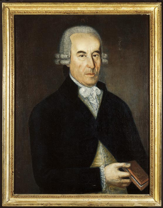 This is a photograph of a portrait of one of the Bridel family members from the end of XVIII/beginning of XIX century - Jean-David Bridel (1728 – 1804). Bridel is an old Swiss-Russian-German aristocratic family. The portrait is owned by the members of the family. An explicit permission for usage of the photograph was obtained from the owner of the portrait. The portrait is from the end of XVIII/beginning of XIX century.